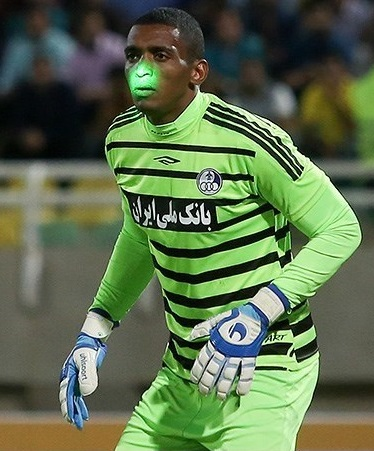 Fernando de Jesus Ribeiro